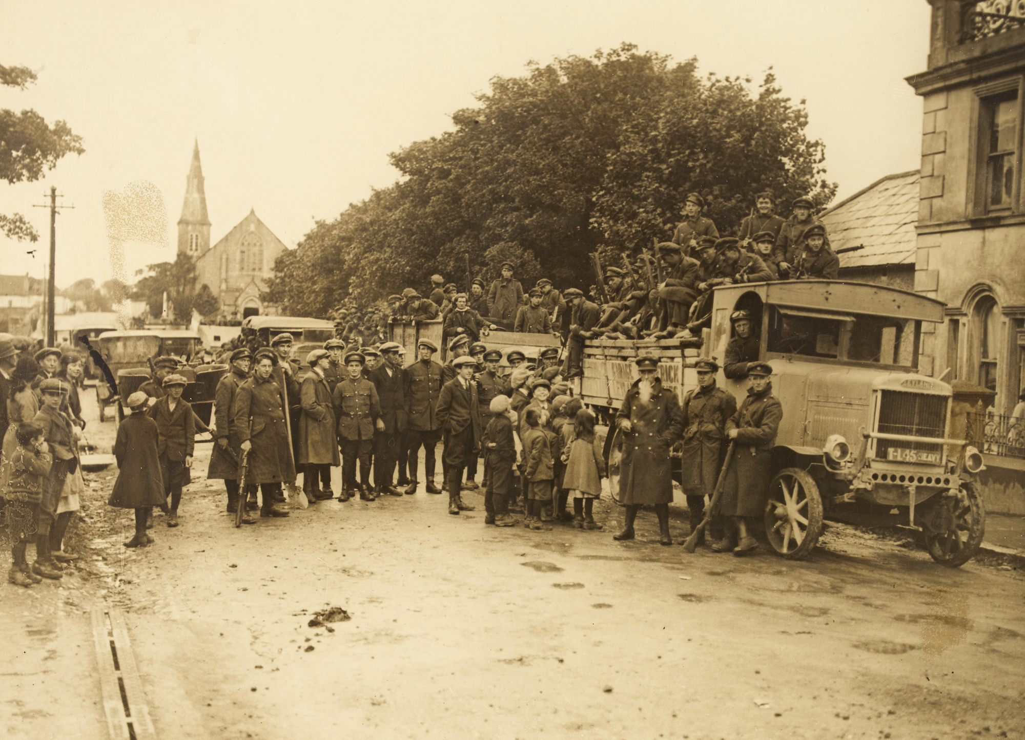 From matters architectural to matters martial today. Troops on foot and mounted on trucks with some children during the Irish Civil War. With thanks to all (especially [/photos/freakyrobbie/ coffee robbie], [/photos/pellethepoet/ pellethepoet], [/photos/freakyrobbie/ coffee robbie], and [/photos/gregcarey/ Greg Carey]) we have confirmation and a corroborating Streetview that this image was taken in Bruff County Limerick, during the push on Limerick during the Civil War. With thanks also to [/photos/pellethepoet/ pellethepoet] and [/photos/129555378@N07/ sharon.corbet] we've been able to use today's image to refine the location in Bruff of a related Hogan image we'd previously posted. Thanks again all! Photographer: W. D. Hogan Collection: Hogan Wilson Collection Date: 27 July 1922. NLI Ref.: HOG124 You can also view this image, and many thousands of others, on the NLI’s catalogue at